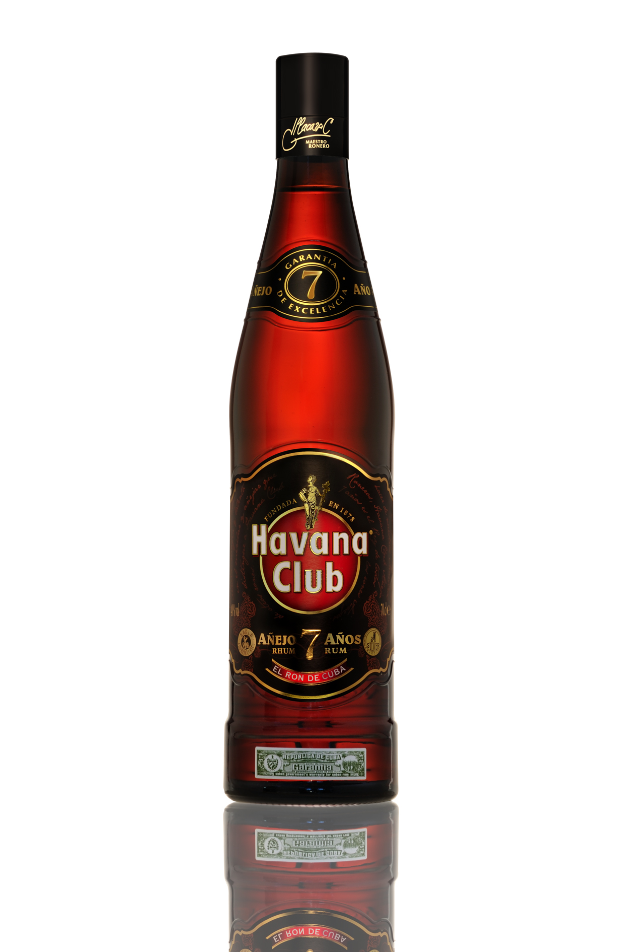 A bottle of Havana Club 7 anos